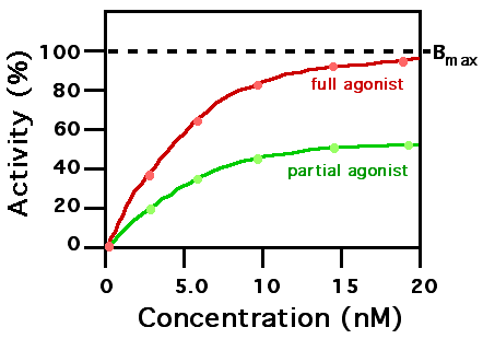 Agonists activate receptors. Source: I made this diagam with ClarisDraw.